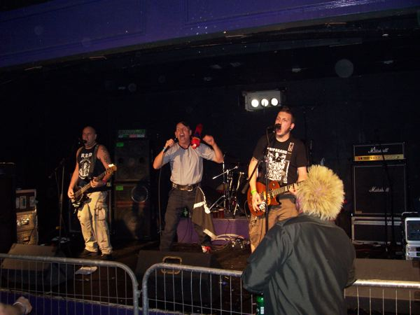 Wasted Farewell Party, Carlton, Morecambe 27th-28th October 2006